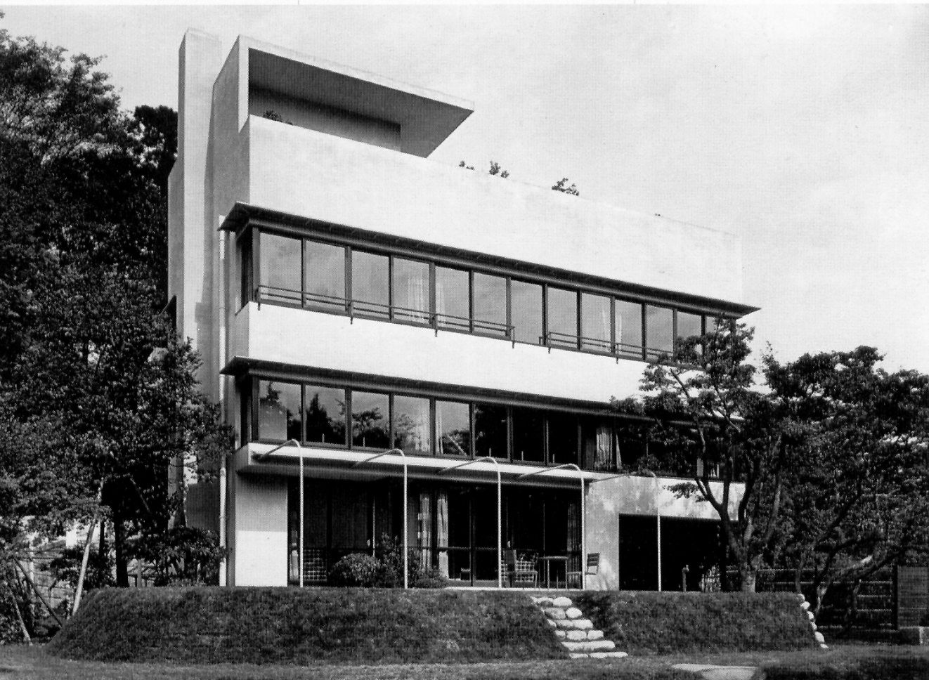 Antonin Raymond: Akaboshi Kisuke house, 1932